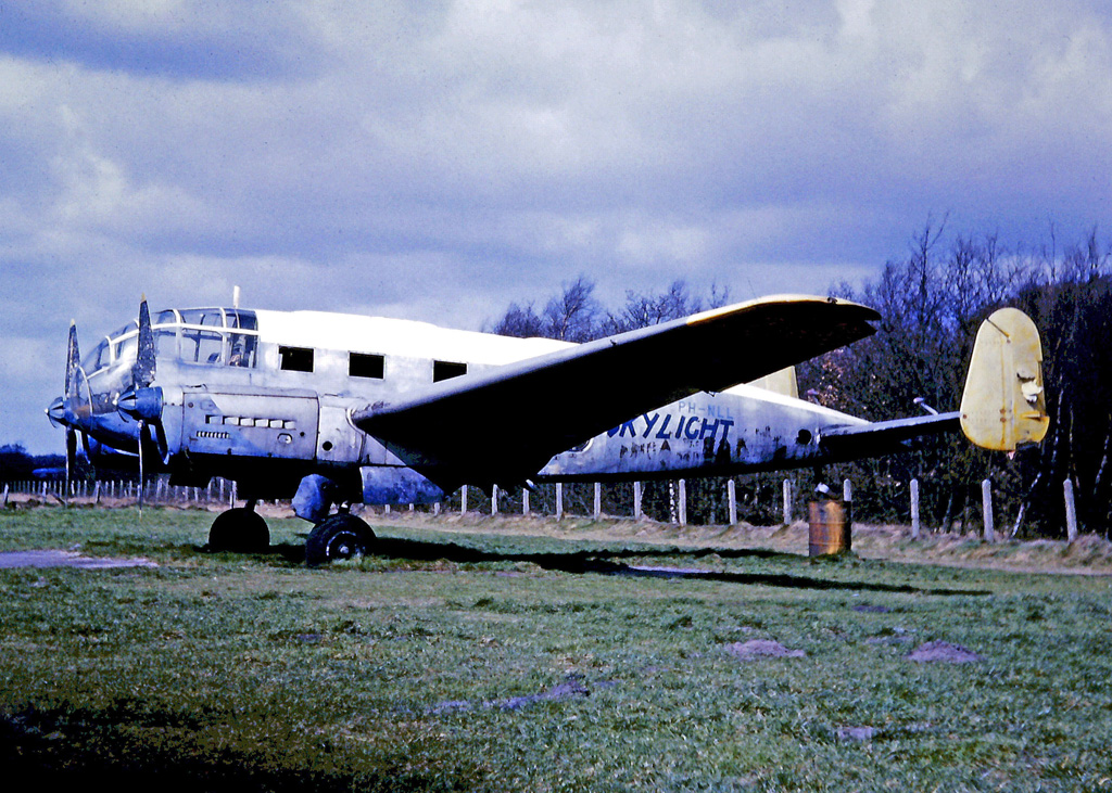 Siebel Si.204D PH-NLL of NLL preserved at Hilversum in 1967